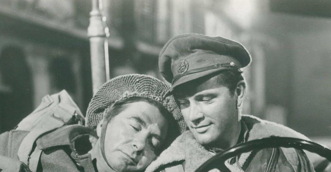 Still from Desert Rats (1953)